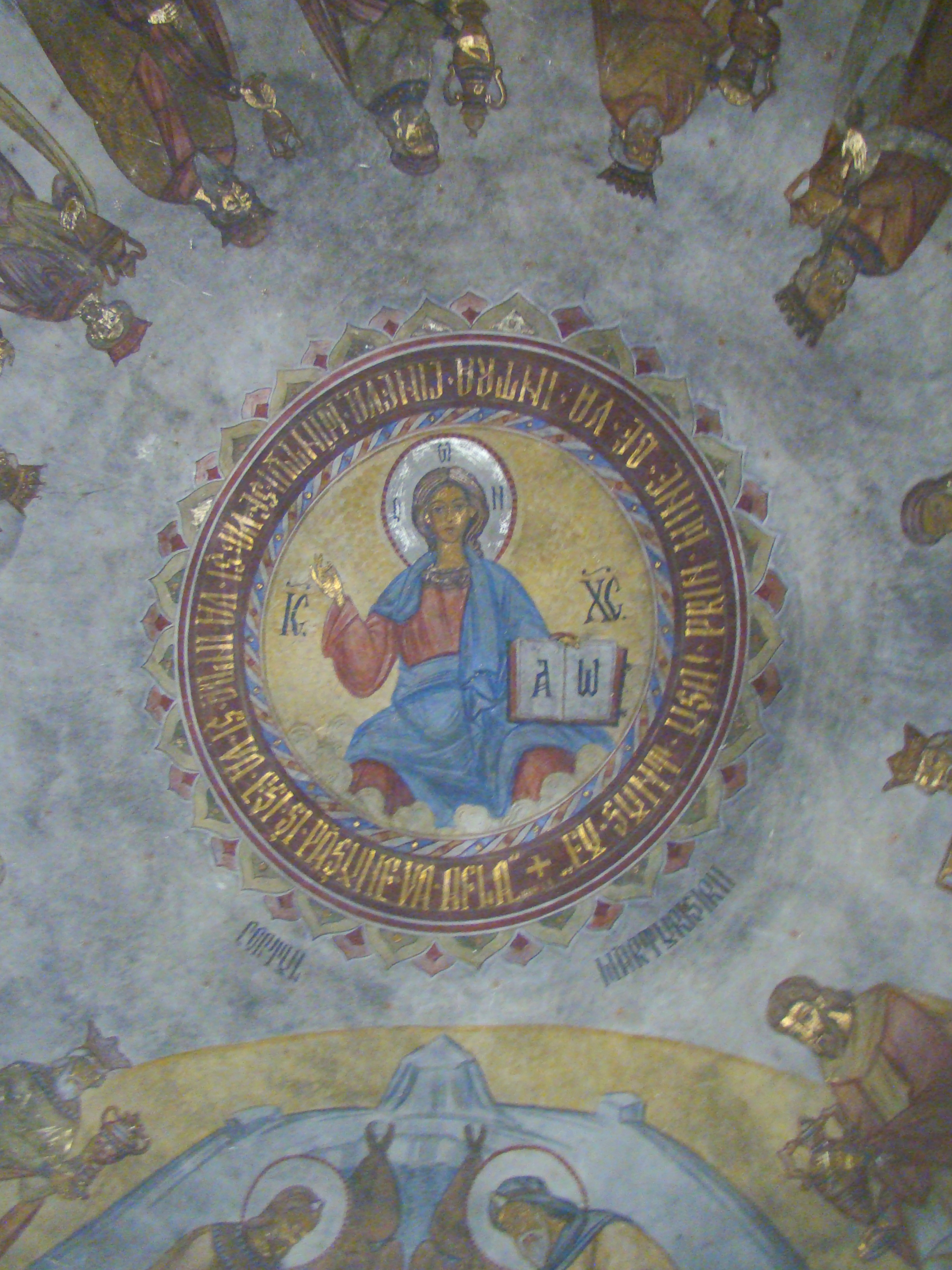 Church of the Dormition-Lipoveni in Alba Iulia, Alba county, Romania 01